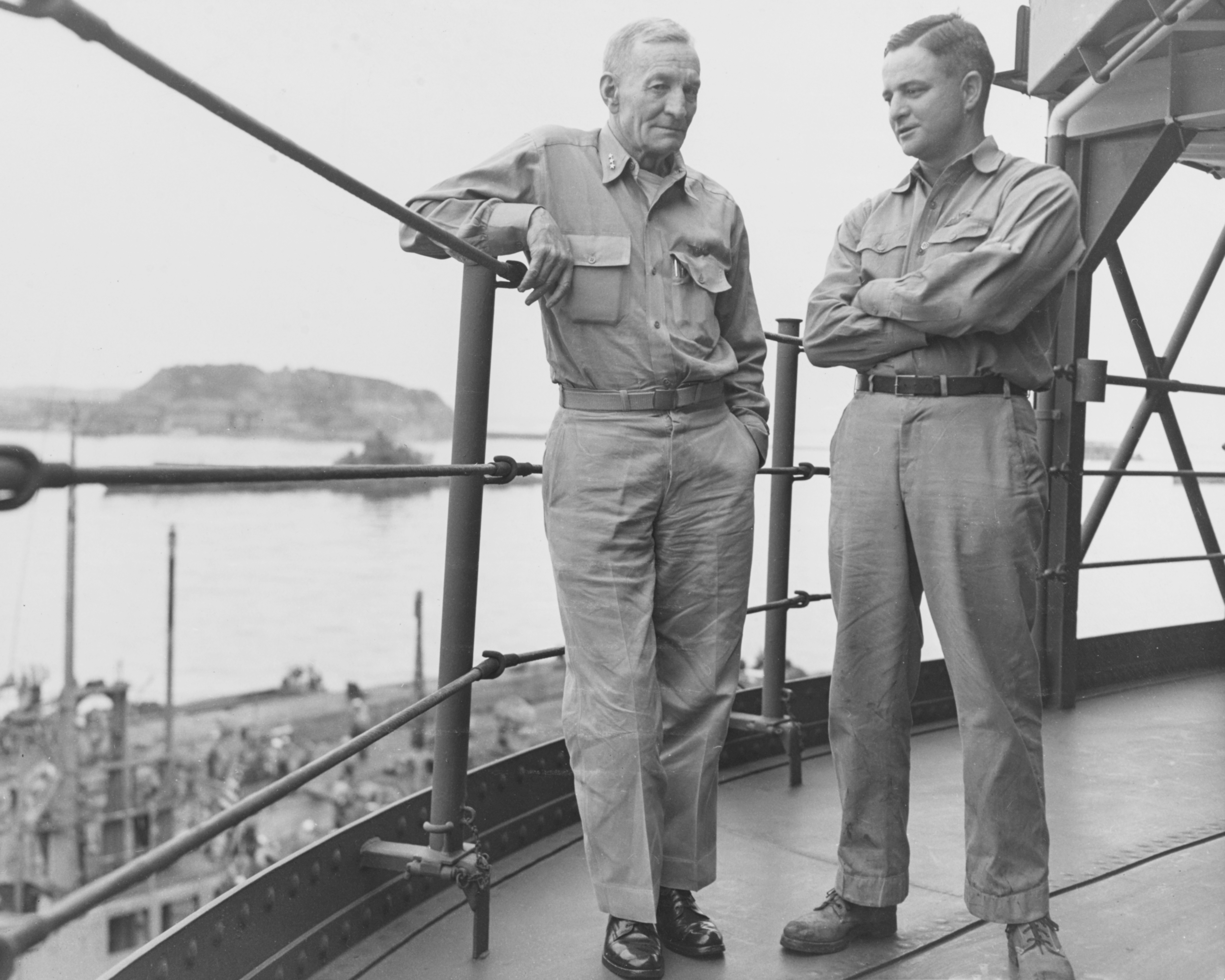 Vice Admiral John S. McCain, USN (center) with his son, Commander John S. McCain, Jr., on board a U.S. Navy ship (probably USS Proteus, AS-19) in Tokyo Bay, circa 2 September 1945. Admiral McCain died a few days after this photo was taken. Note Japanese submarine in background, just to left of Admiral McCain.